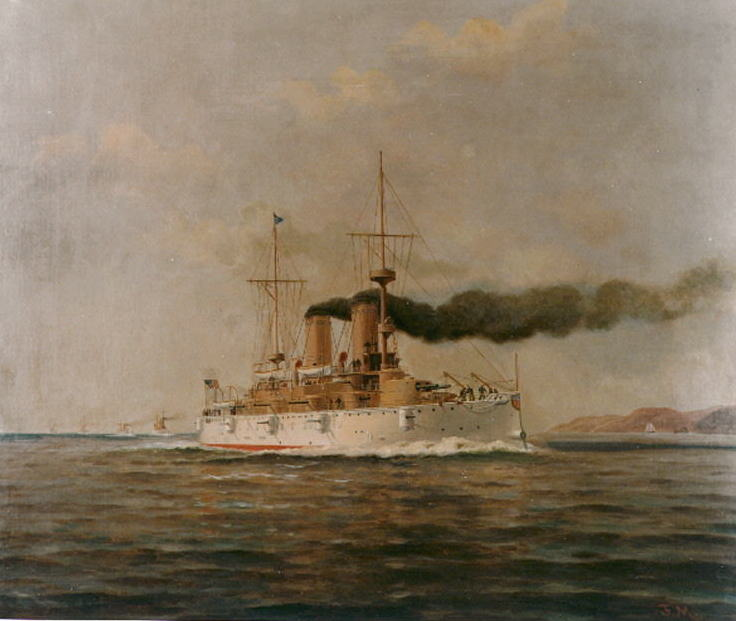 USS Olympia (Cruiser #6) Oil on canvas by Francis Muller, circa 1900, showing Olympia leading a column of cruisers.